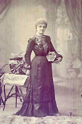 An image of concertina performer Marie Lachenal from 1900.